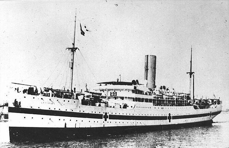 HM Hospital Ship Letitia. Scott's of Greenock built her in 1912 as a passenger ship for Donaldson Line. The Admiralty requisitioned her in 1914 as a hospital ship. In 1917 while trying to enter Halifax, Nova Scotia she grounded on rocks and was lost.